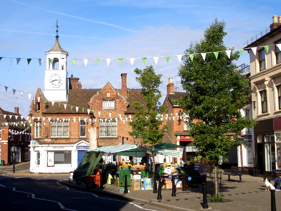 Ampthill market place, July 8th 2006. Taken by APB-CMX